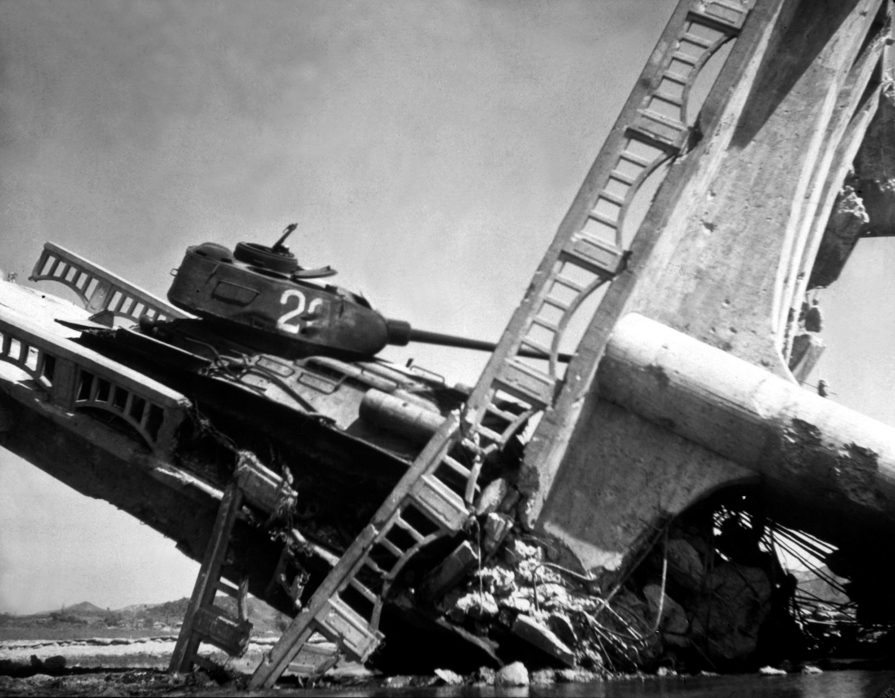 The wreckage of a bridge and North Korean Communist tank south of Suwon, Korea. The tank was caught on a bridge and put out of action by the Air Force. ID #HD-SN-99-03158